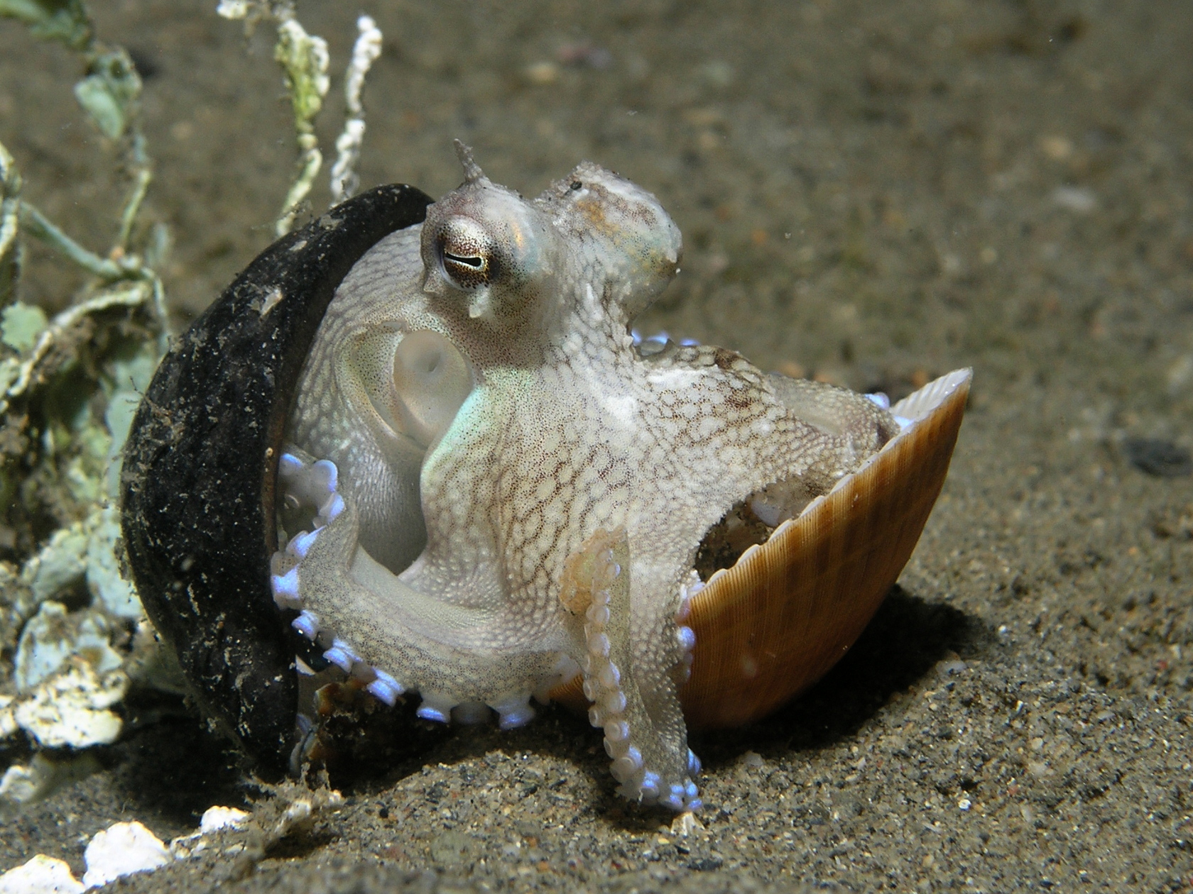 Amphioctopus marginatus. This small octopus was found on a night dive off the Northern coast of East Timor approximately 40 kilometers West of the capital Dili. This individual used the two shells as protection by pulling them around itself when it sensed danger. Other individuals have demonstrated the ability to carry the shells with them as they travel across the bottom in search of prey. The dive site where this individual was observed is called "Sandy Bottom".